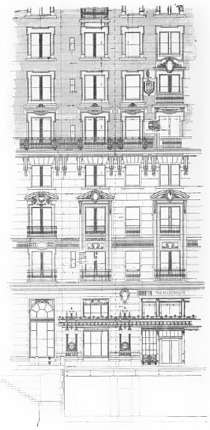 Diagram of the Hotel Martinique (New York City), lower part, 32nd Street elevation. Henry Janeway Hardenbergh, architect.